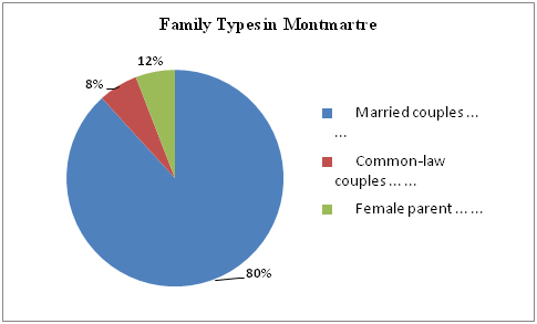 Family types in Monmartre Village